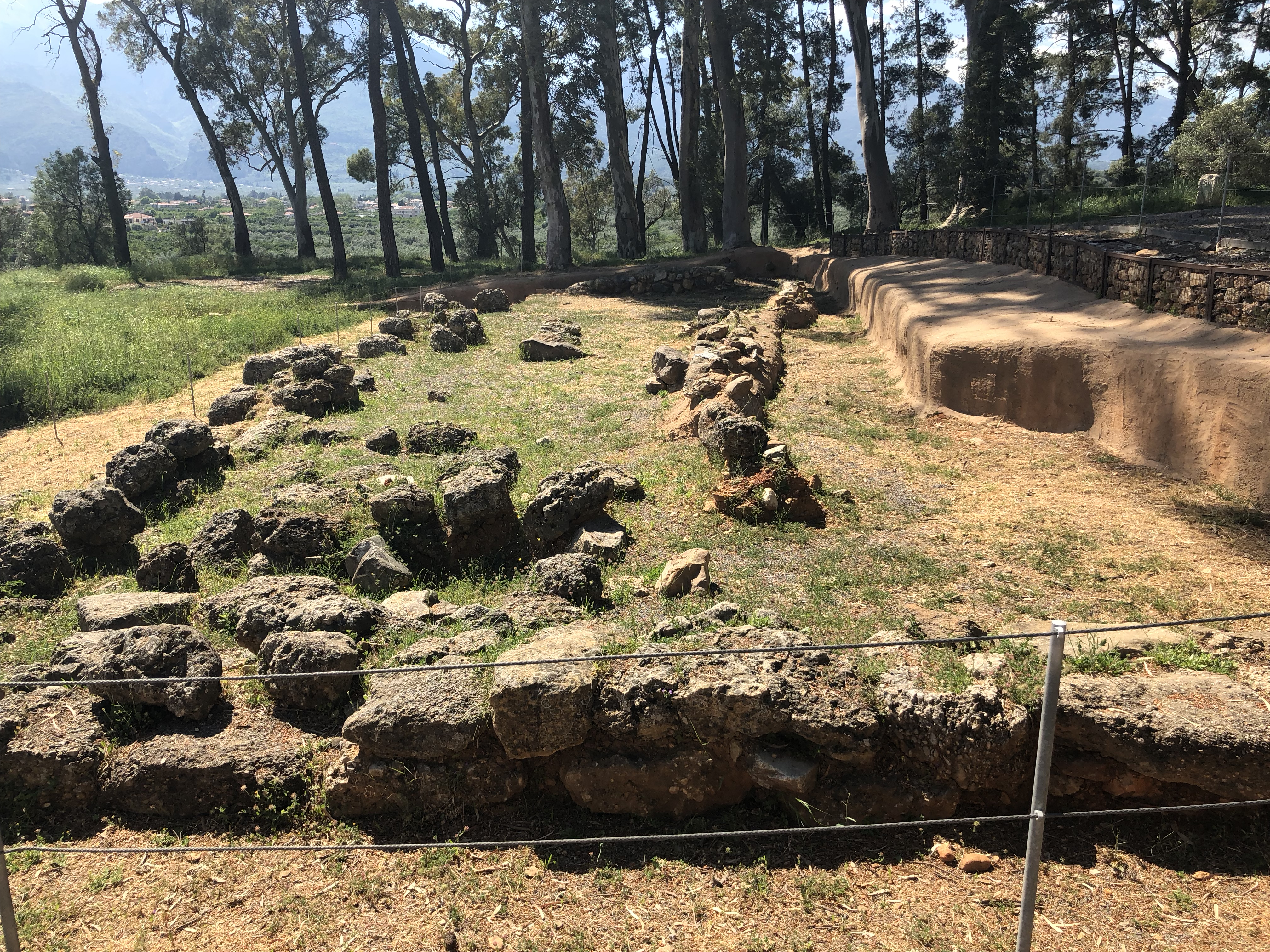 Temple of Athena Chalkioikos